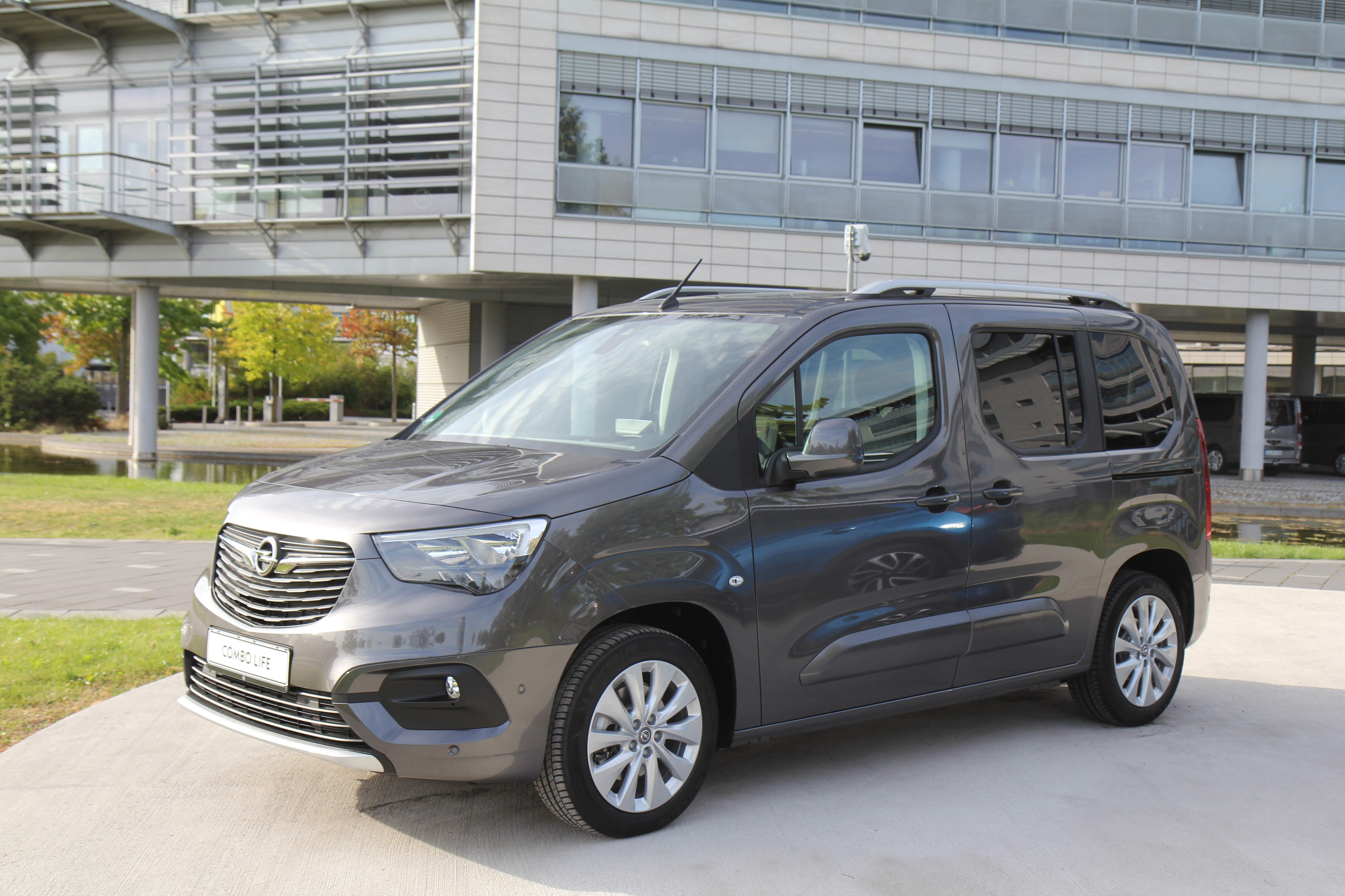 Opel Combo life 2018 exposed in front of Opel administration building in Rüsselsheim, Germany, seen from left side front angle.Opel administration building in the background